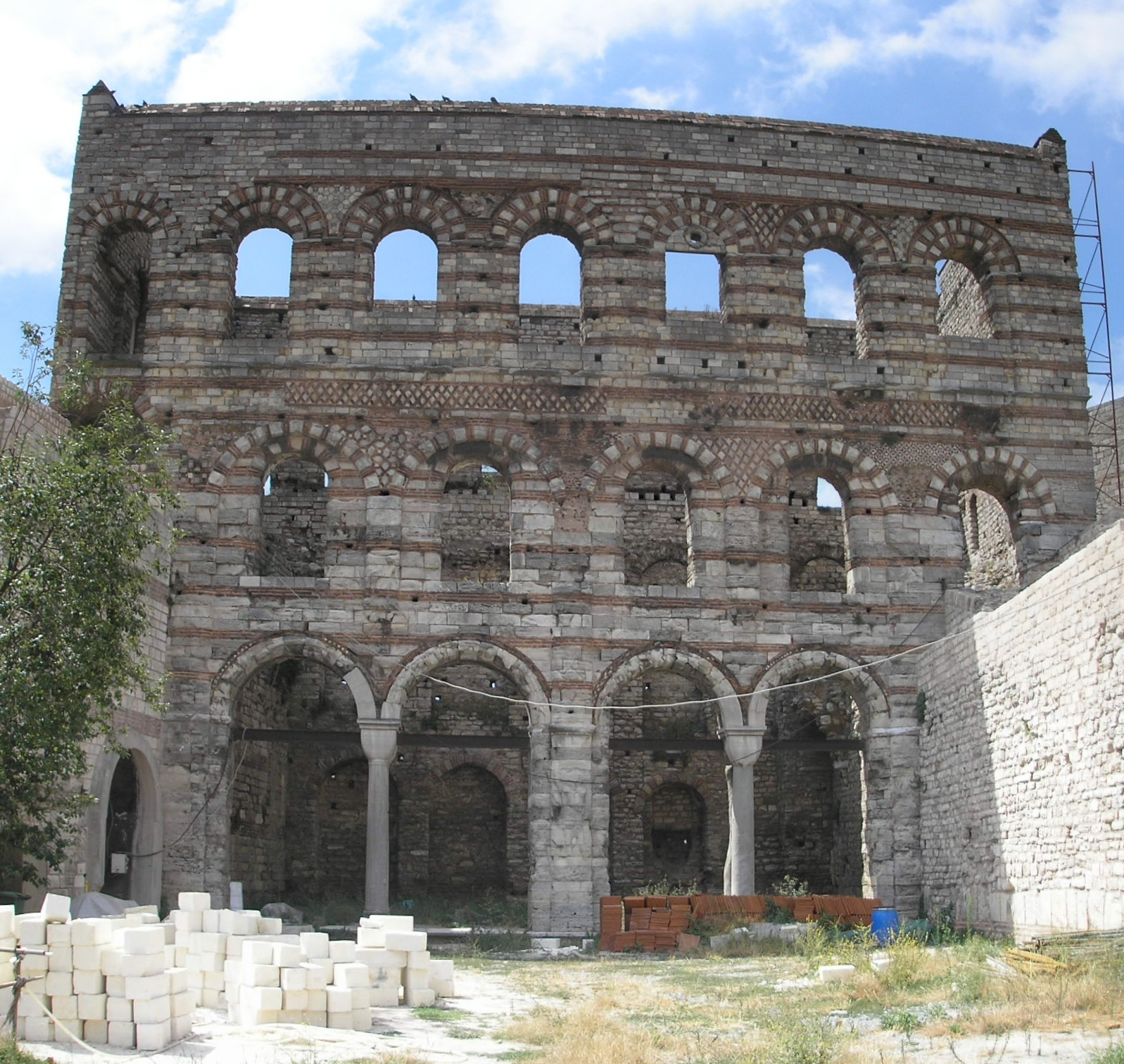 View of the ruins of the Byzantine Palace of the Porphyrogenitus in Istanbul.